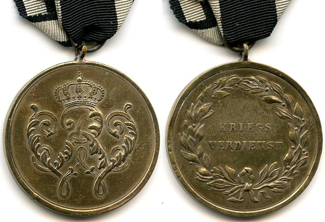 Military Honor Medal, 1864, Prussia